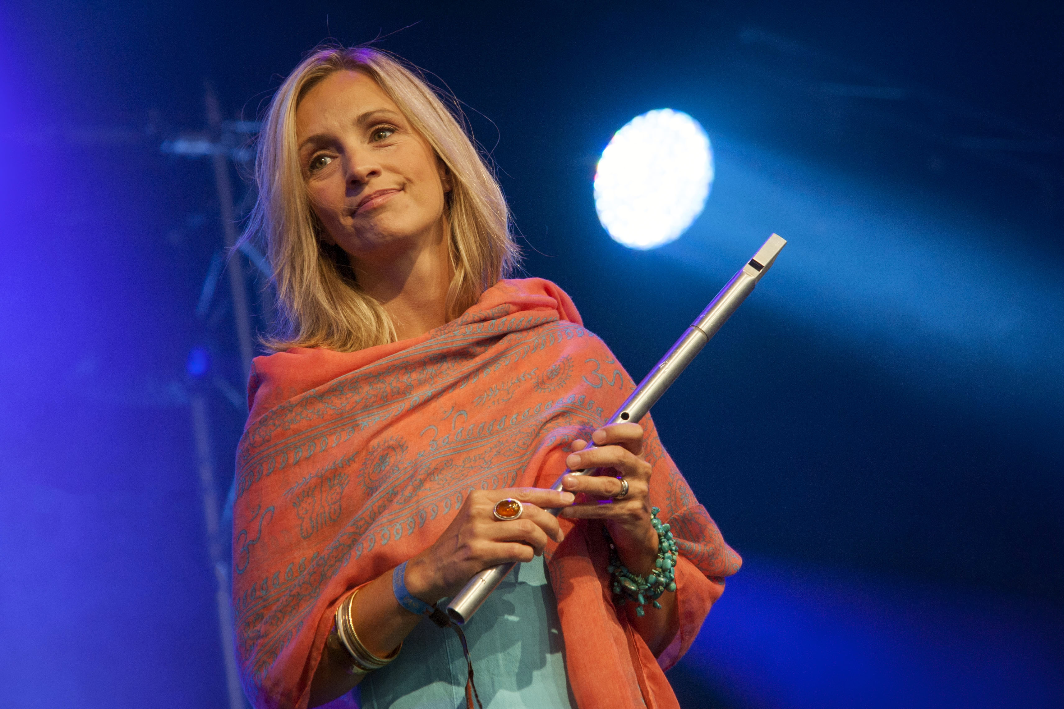 Cara Dillon at Cambridge Folk Festival 50th Anniversary.